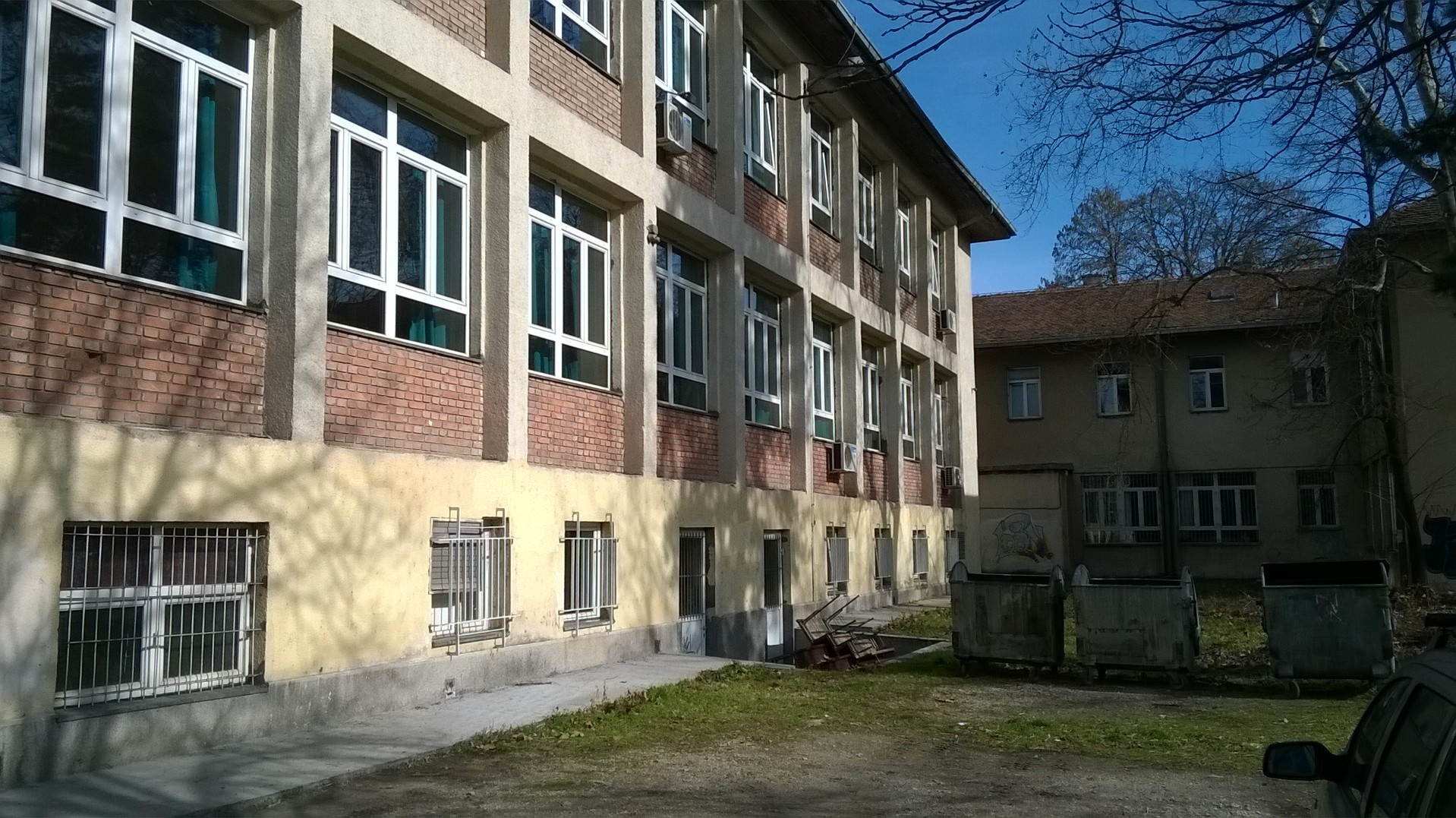 Ninth Belgrade Gymnasium "Mihailo Petrović-Alas" Old look